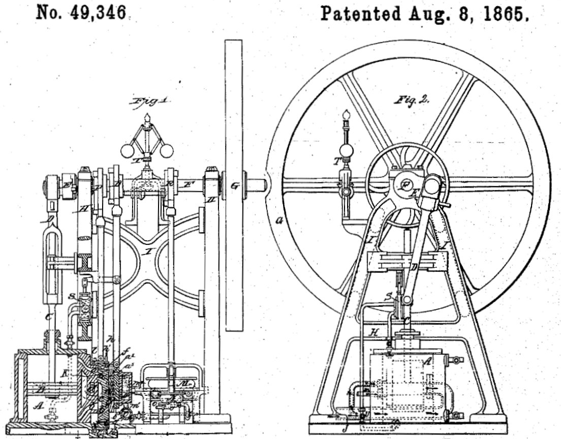 Hugon Engine from US patent 49346 of August 1865. This embodies the principles in the commercial horizontal Hugon engine of the same year, and the text of the patent explains the mechanism. It is not known if a vertical engine was ever available commercially.